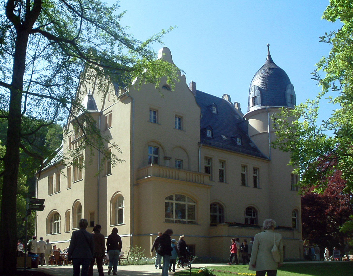 Villa Jahr at Tschaikowskistraße 39 in Gera, Germany; built in 1905/07 by architect Rudolf Schmidt; photographed during Bundesgartenschau 2007